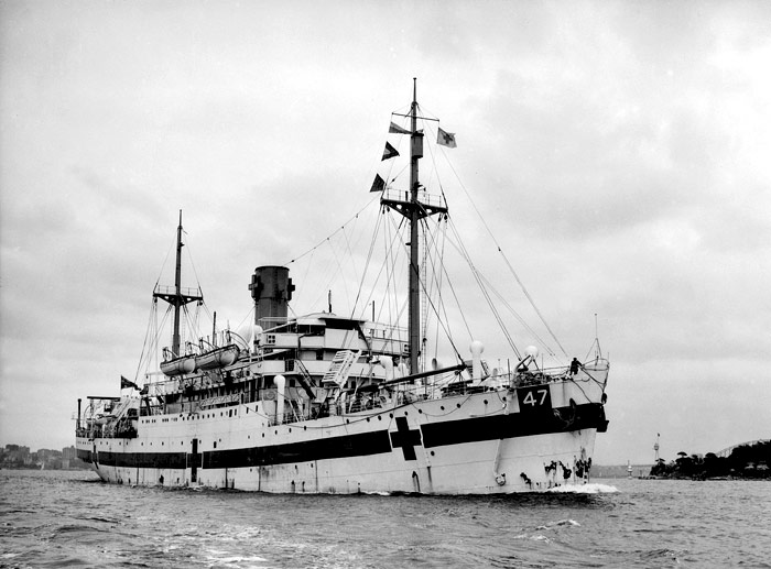 AWM caption: "SYDNEY, NSW. 1943. STARBOARD BOW VIEW OF THE HOSPITAL SHIP CENTAUR. NOTE THE PROMINENT RED CROSSES AND GREEN LINES ON HER HULL. RED CROSSES ARE ALSO ATTACHED TO HER FUNNEL. THE CENTAUR WAS TORPEDOED AND SUNK WITH HEAVY LOSS OF LIFE BY A JAPANESE SUBMARINE ON 1943-05-14."